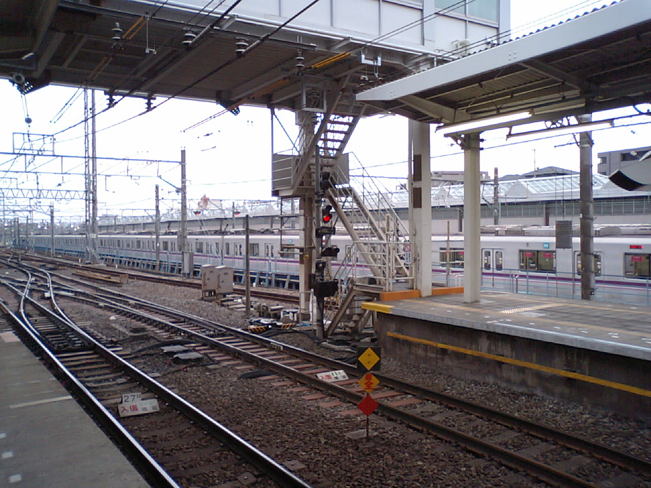 Tokyo Metro Saginuma depot seen from Saginuma Station platform.鷺沼駅ホームから見た東京メトロ鷺沼車庫・鷺沼工場。